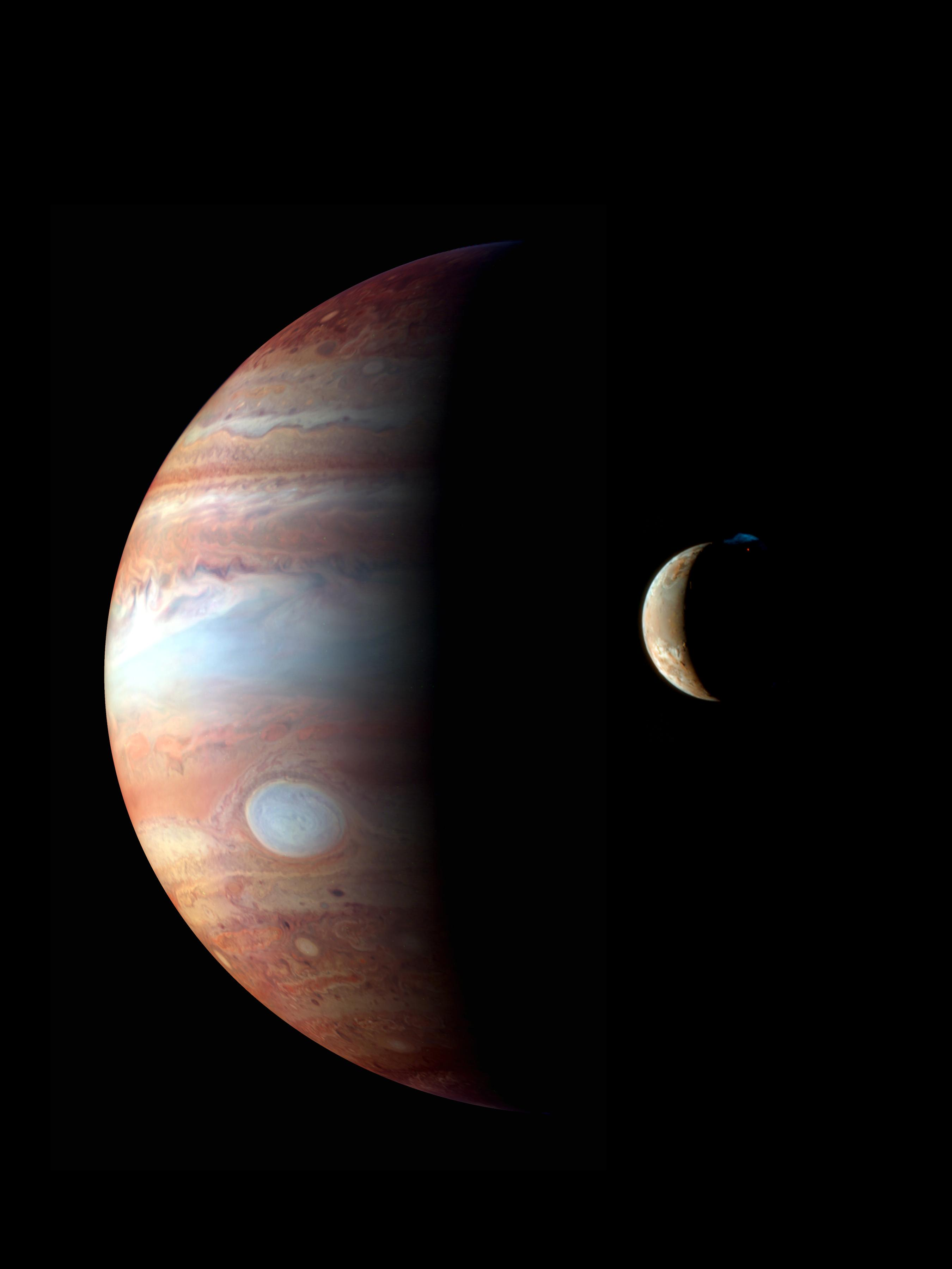 An image of Jupiter and its moon Io. It was taken by the New Horizons spacecraft's flyby in early 2007. The image of Jupiter is an infrared color composite and the image Io is a nearly true-color composite. According to NASA's website, "The infrared wavelengths used highlight variations in the altitude of the Jovian cloud tops, with blue denoting high-altitude clouds and hazes, and red indicating deeper clouds. [...] The image shows a major eruption in progress on Io's night side, at the northern volcano Tvashtar. Incandescent lava glows red beneath a high volcanic plume, whose uppermost portions are illuminated by sunlight. The plume appears blue due to scattering of light by small particles in the plume." [1]